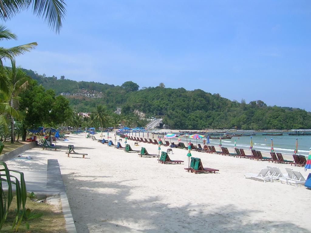 Sightseeing in Thailand. Photo by Brownie13.